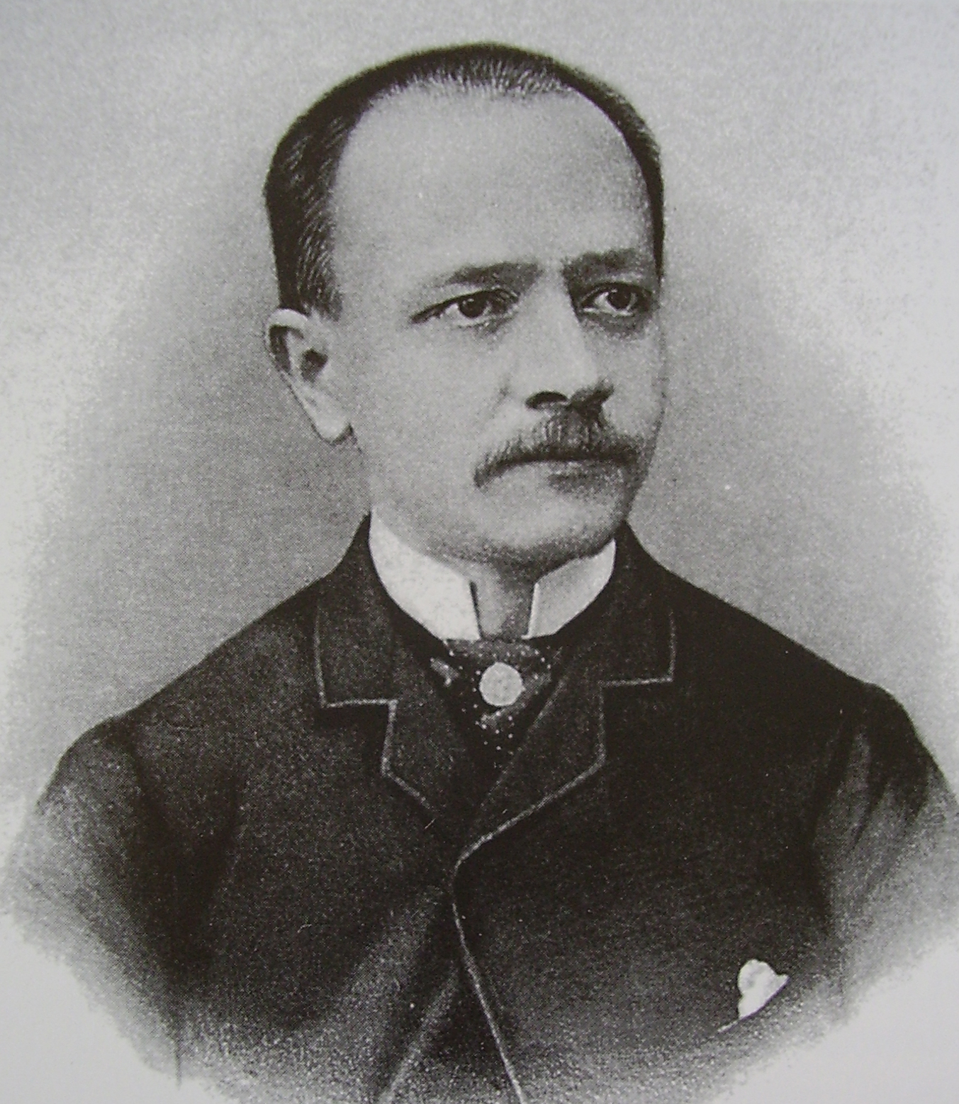 Photographe of Auguste Molinier, French historian